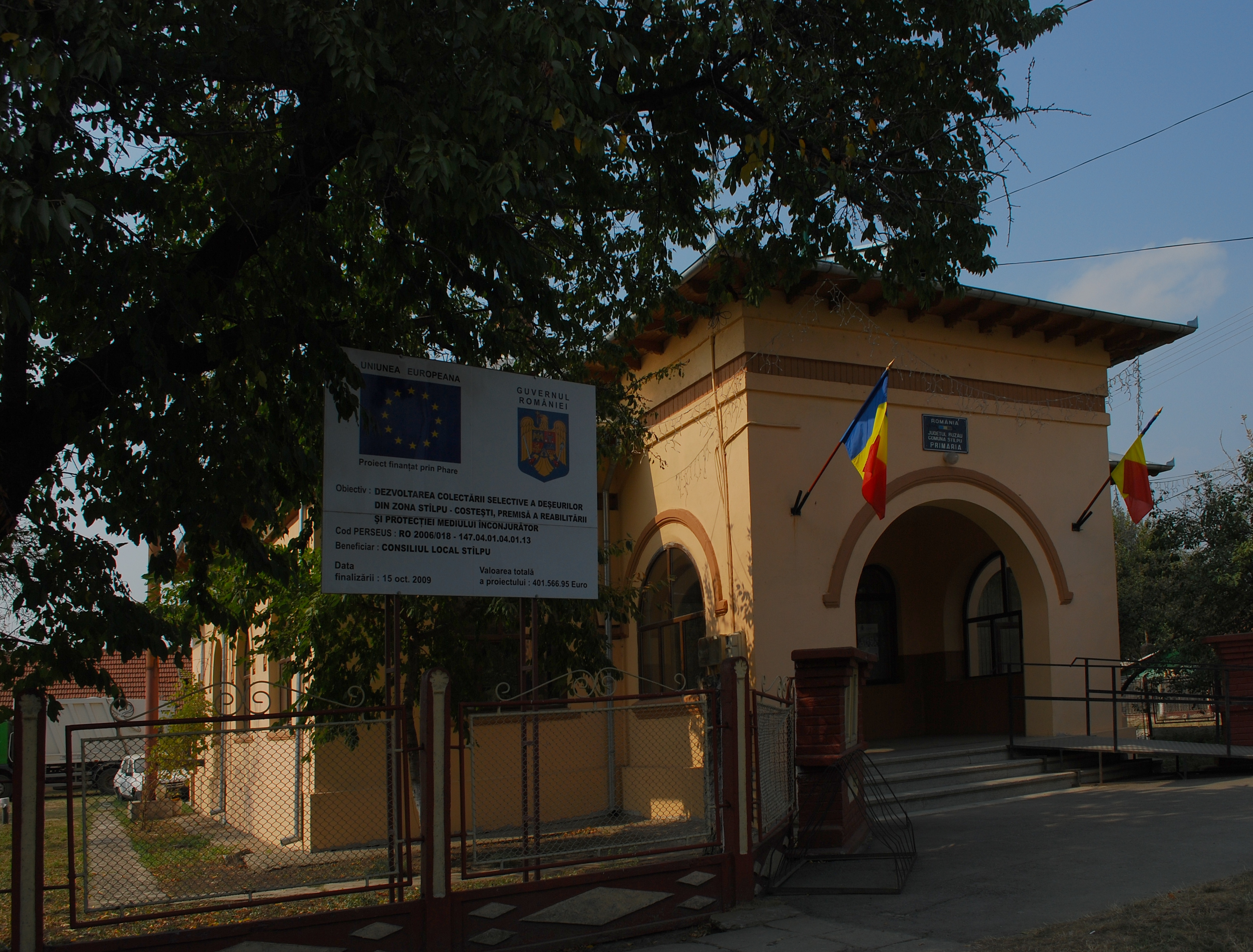 Town hall in Stâlpu, Buzău County, RomaniaRomână: Primăria comunei Stâlpu, judeţul Buzău, România